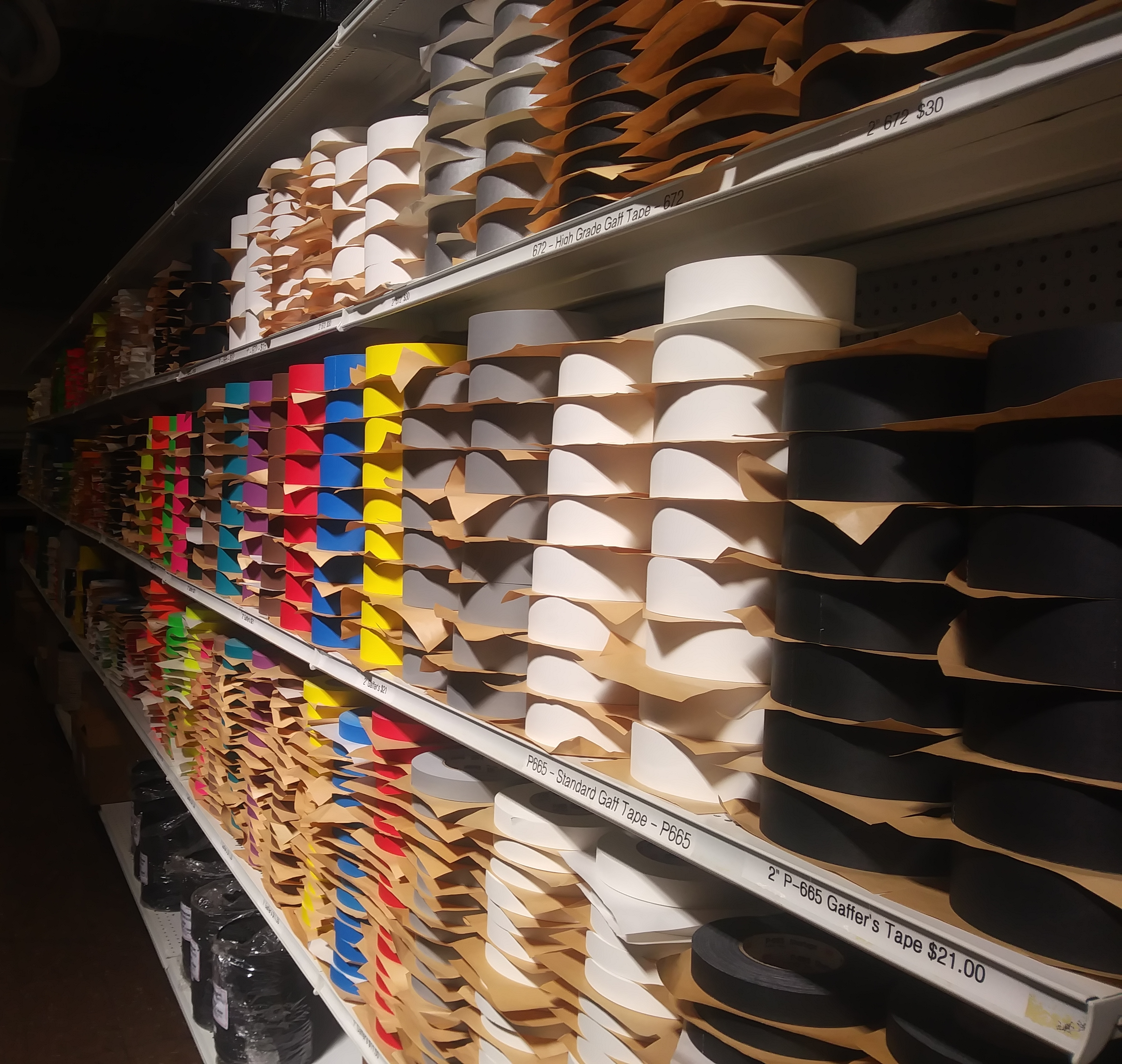 Gaffer Tape, Black, White and Gray At JCX Expendables, San Francisco, CA US